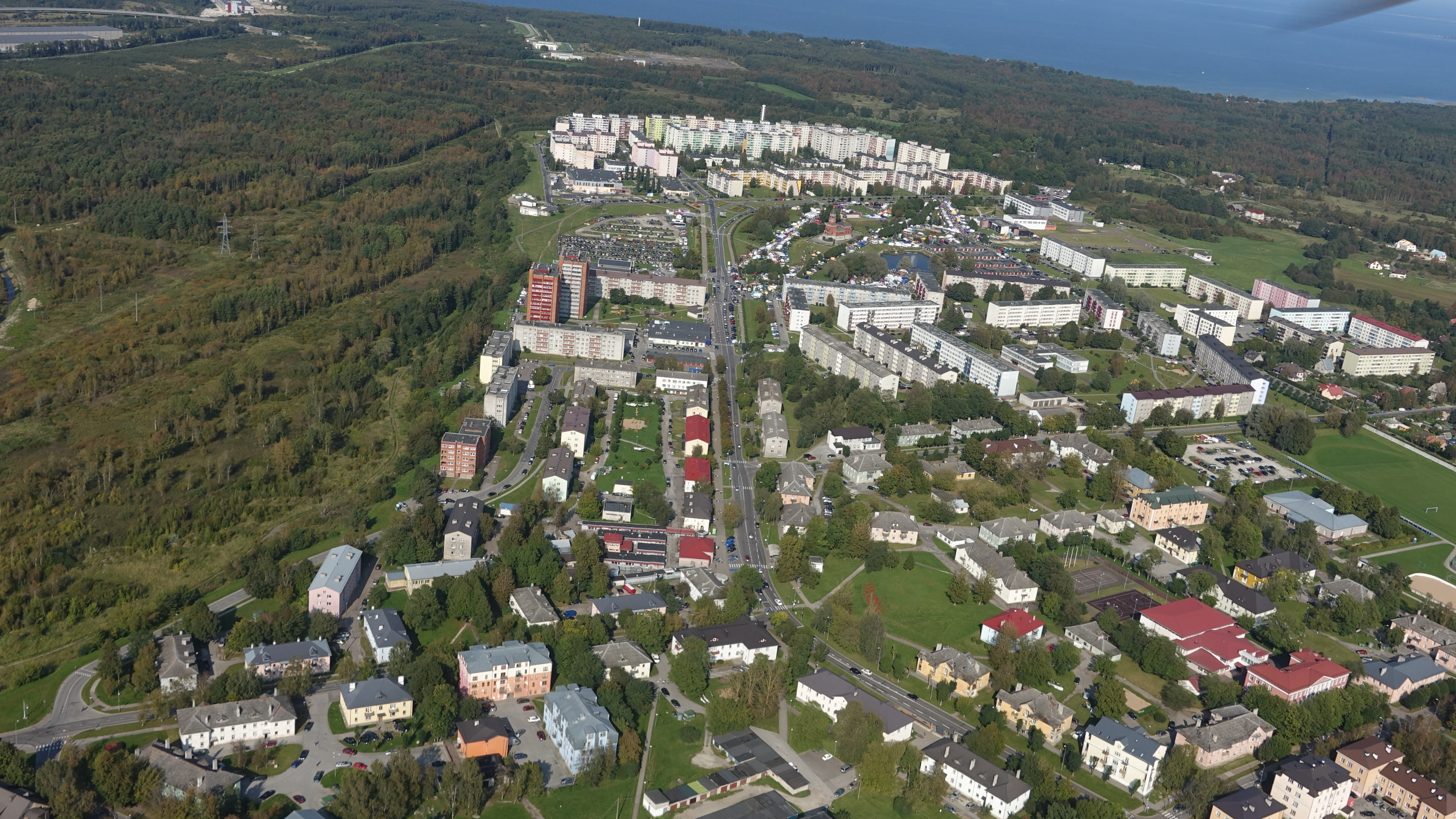 Great view on the new district